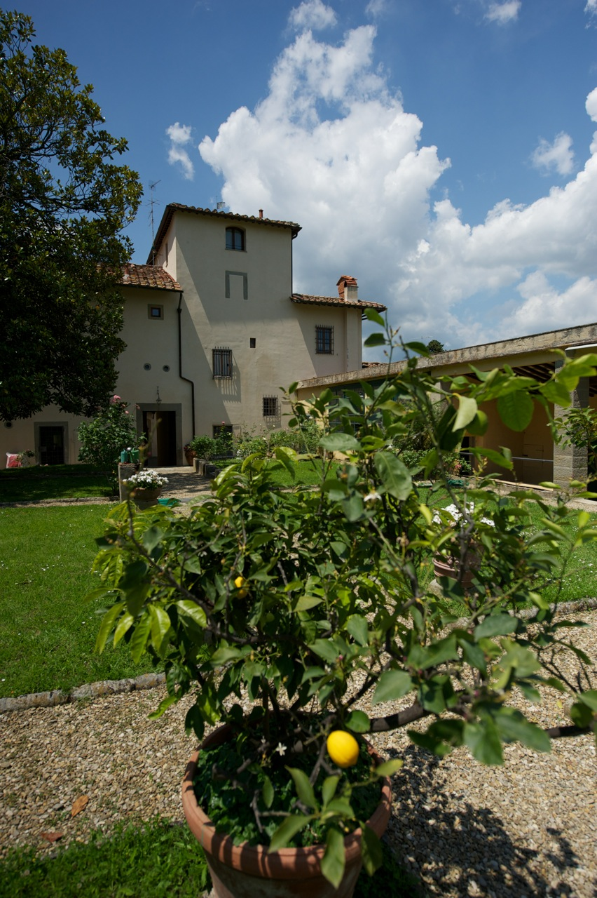 The tower from the back garden